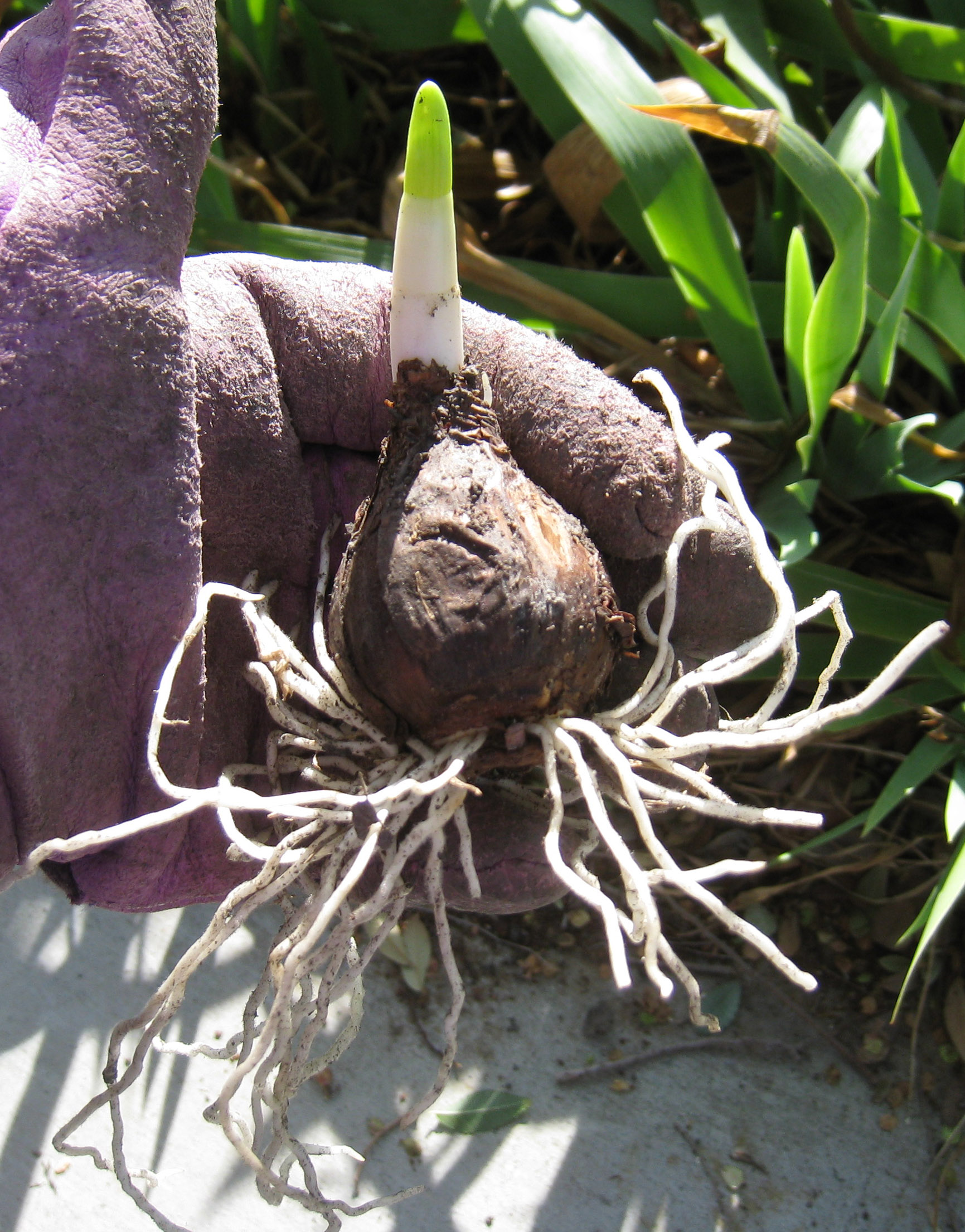 A daffodil/narcissus bulb, after division. Santa Clara, California.